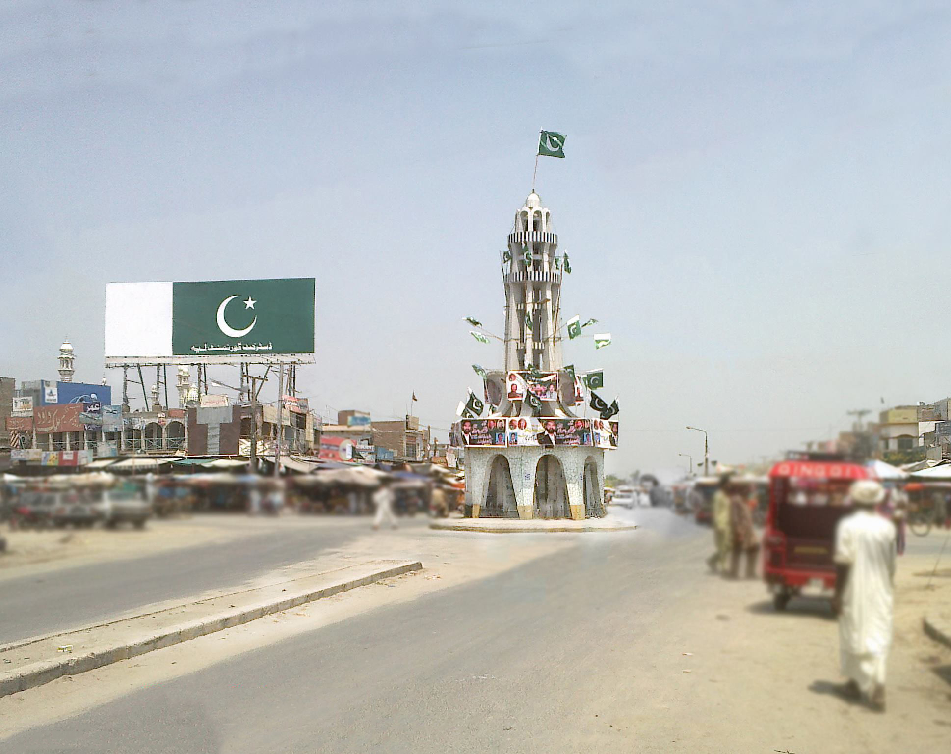 Picture of chowk azam minar.